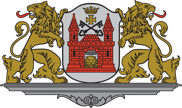 Coat of arms of Riga